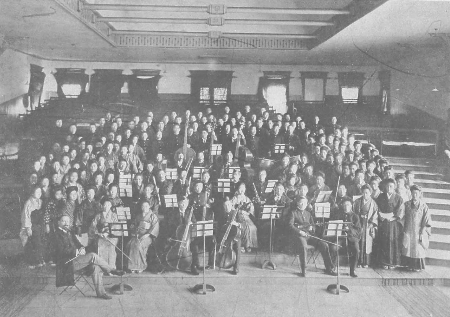 Student and Teacher at Sogakudo hall